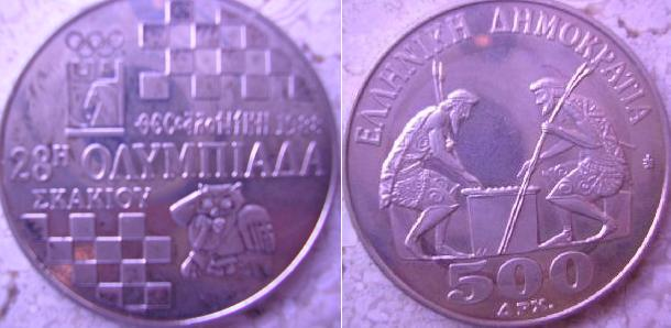 silver coin, 500 drachmas, Chess Olympiad 1988 in Thessaloniki, Photographer Gerhard Hund.